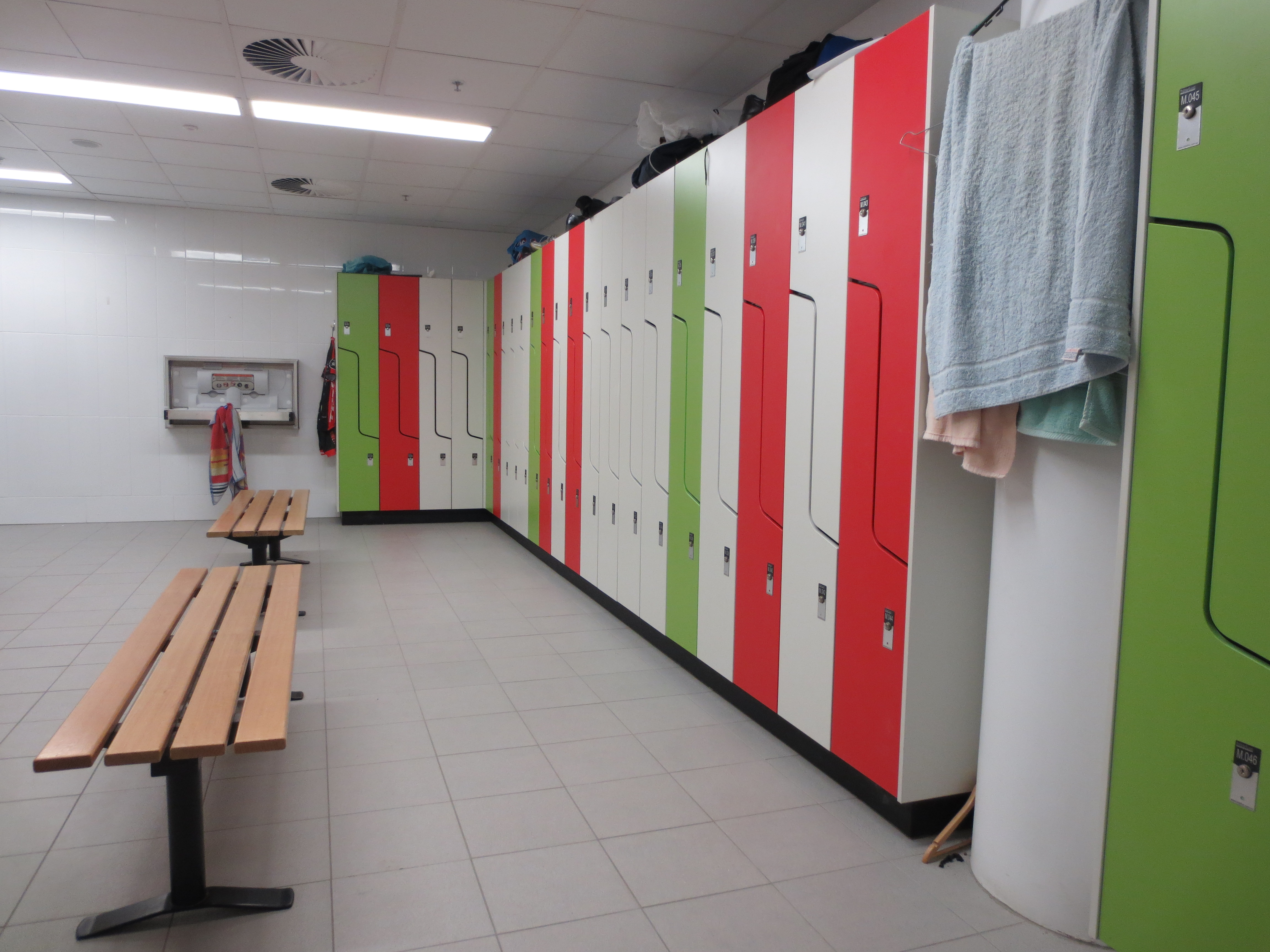 change room showing modern lockers, change room is in use with towels and bench shown located in office basement area